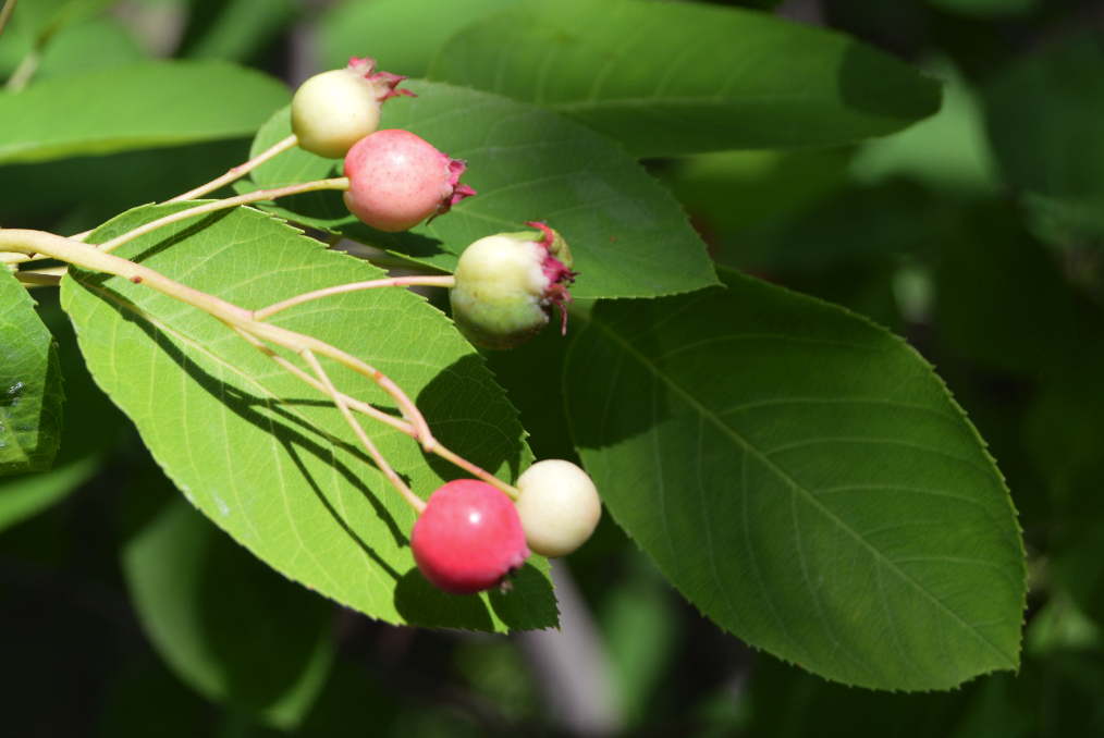 Amelanchier canadensis at the National Botanic Garden in Washington DC, USA